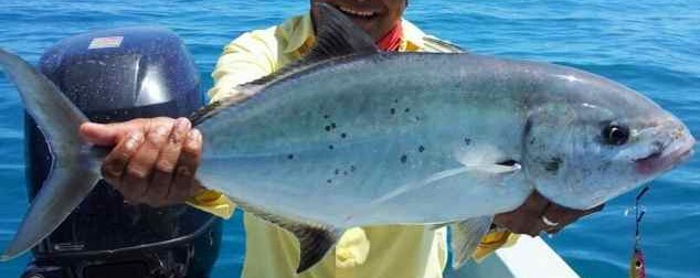 Taken from Darwin NT